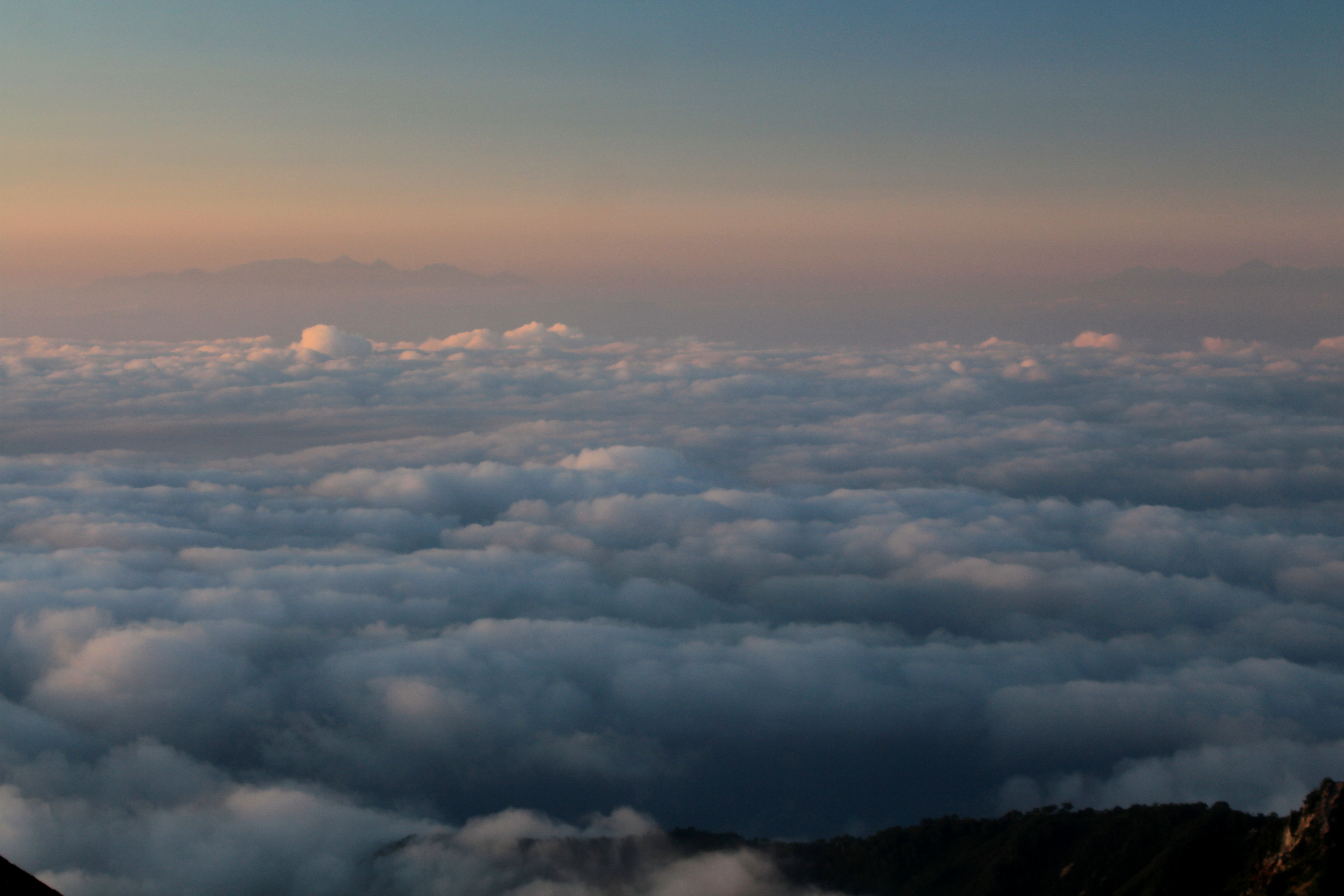 Sea of clouds seen from Mount Karamstsu after sunrise in Ushirotateyama Mountains, Japan.